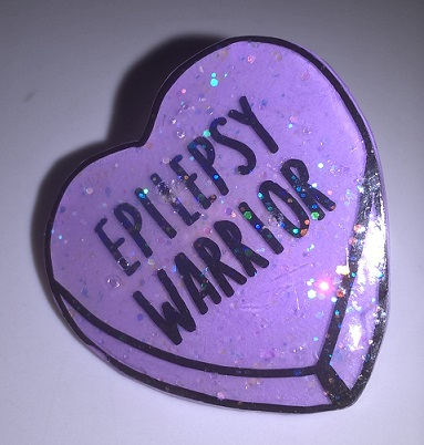 An image of a freely sold brooch I own and wear pertaining to epilepsy. The color is adhering to that recognizing epilepsy and awareness of the condition, and the caption states as such.